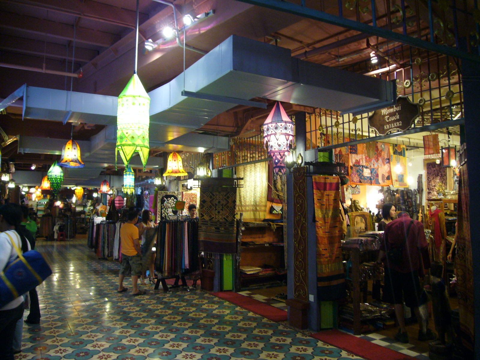 Central Market, Kuala Lumpur